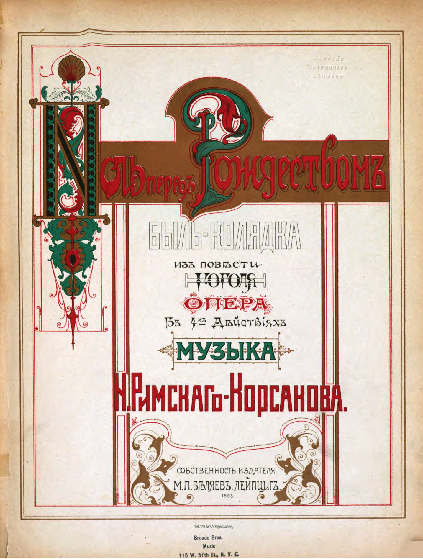 Nikolai Rimsky-Korsakov - Christmas Eve - cover of the piano score, Leipzig 1895